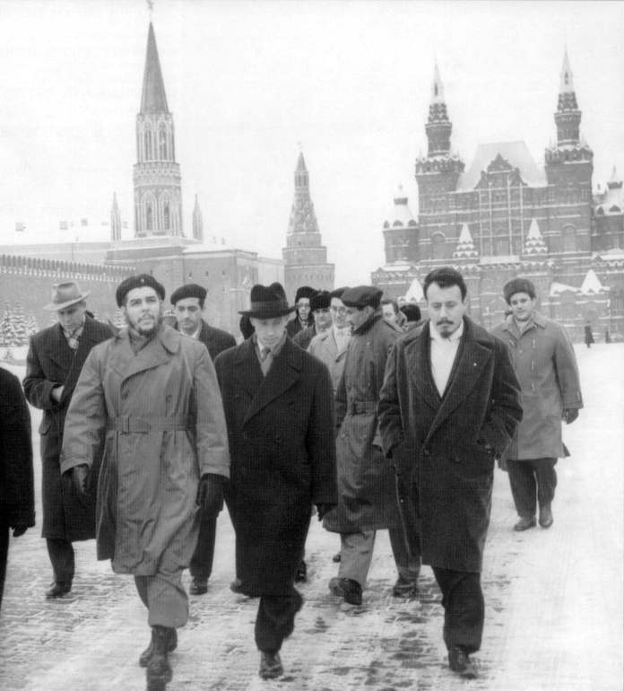 Ernesto Che Guevara in Moscow, Russia